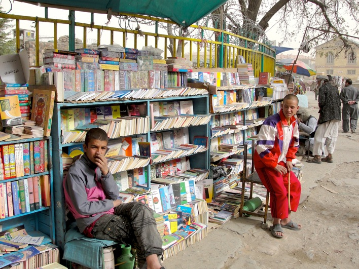 Booksellers of Streets of Kabul